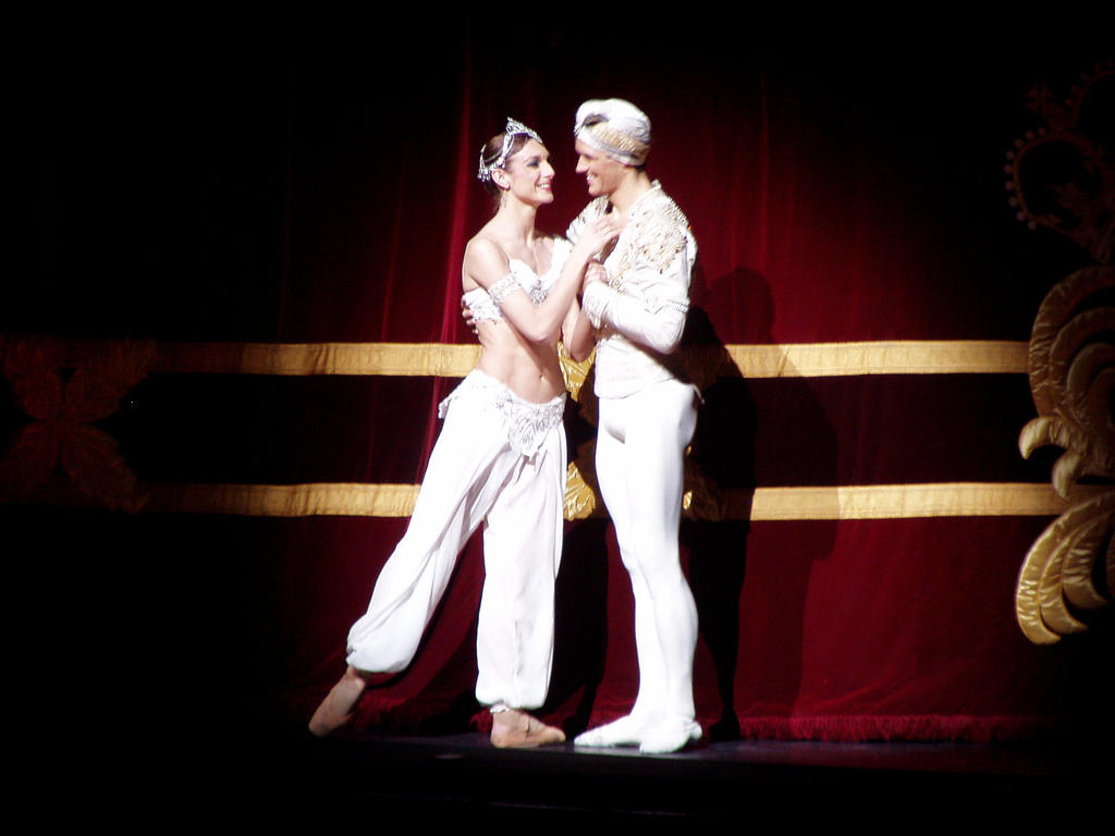 Zenaida Yanowsky and Roberto Bolle as Nikiya and Solor during the red run for the Royal Ballet production of La Bayadere.